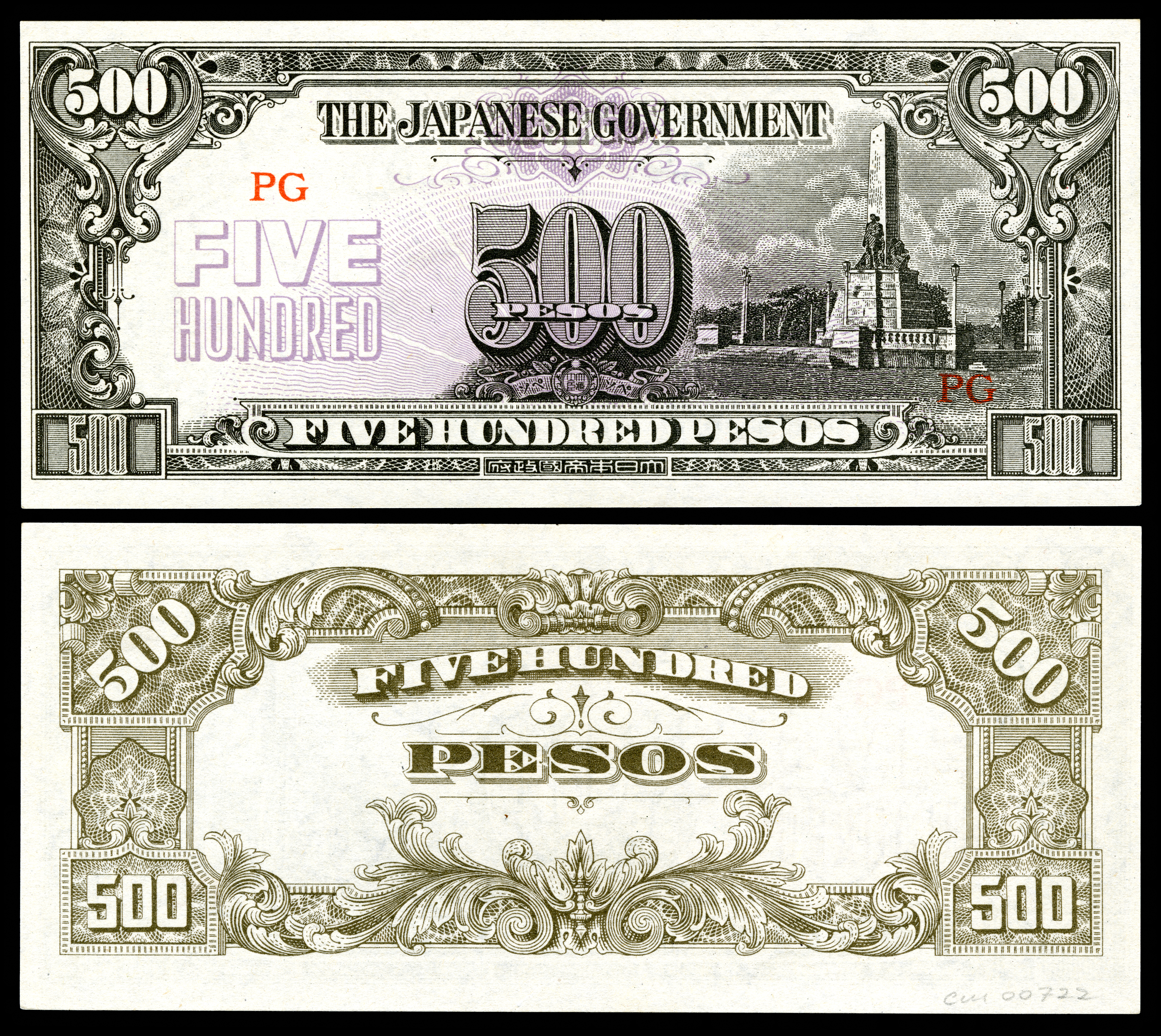 Japanese Government (Philippines)-500 Pesos (1944) The Japanese government-issued Philippine peso, part of the Japanese invasion money of World War II, was issued between 1942 and 1945 by the occupying Japanese government.